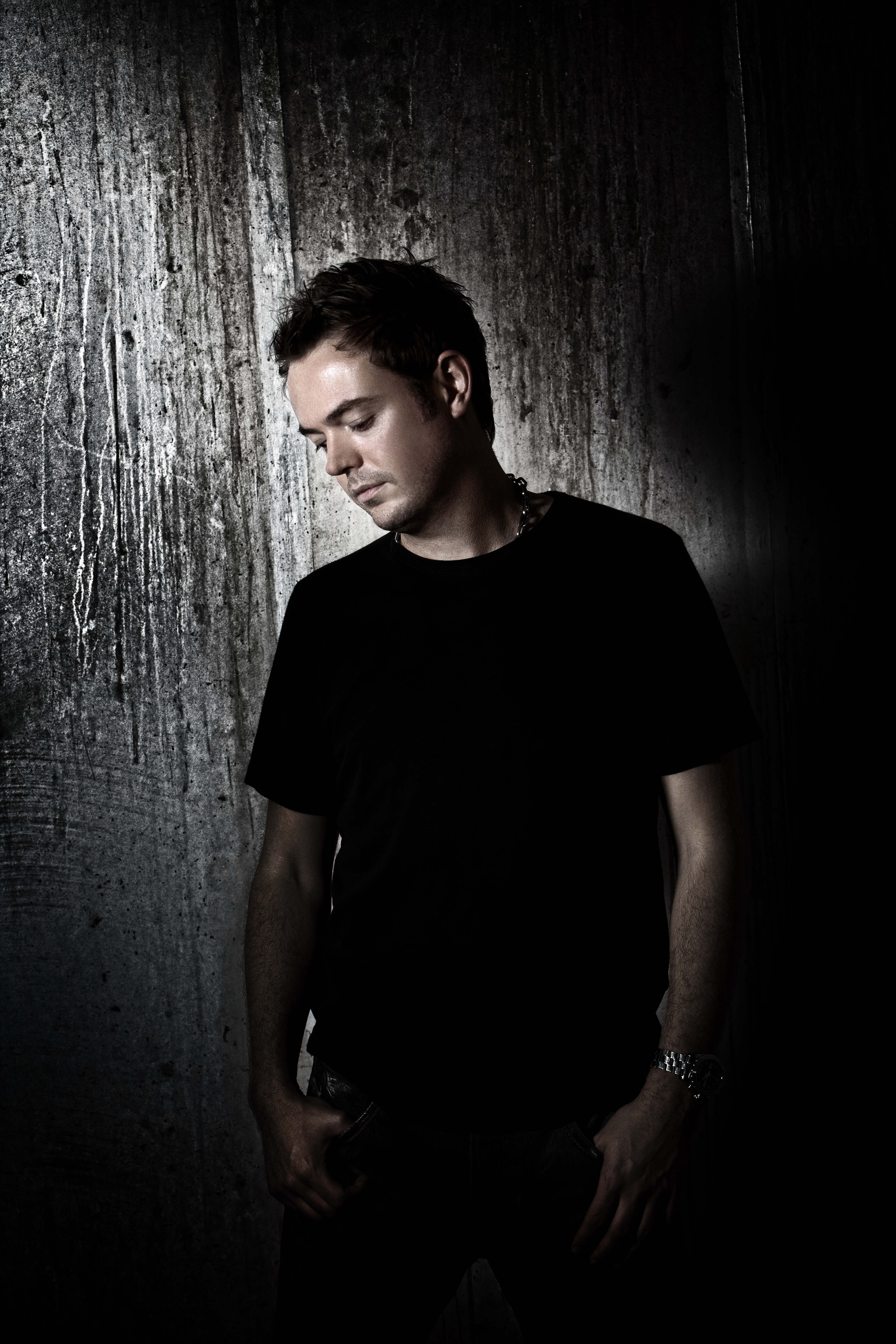 This photo of andy moor was shot for his Album release.